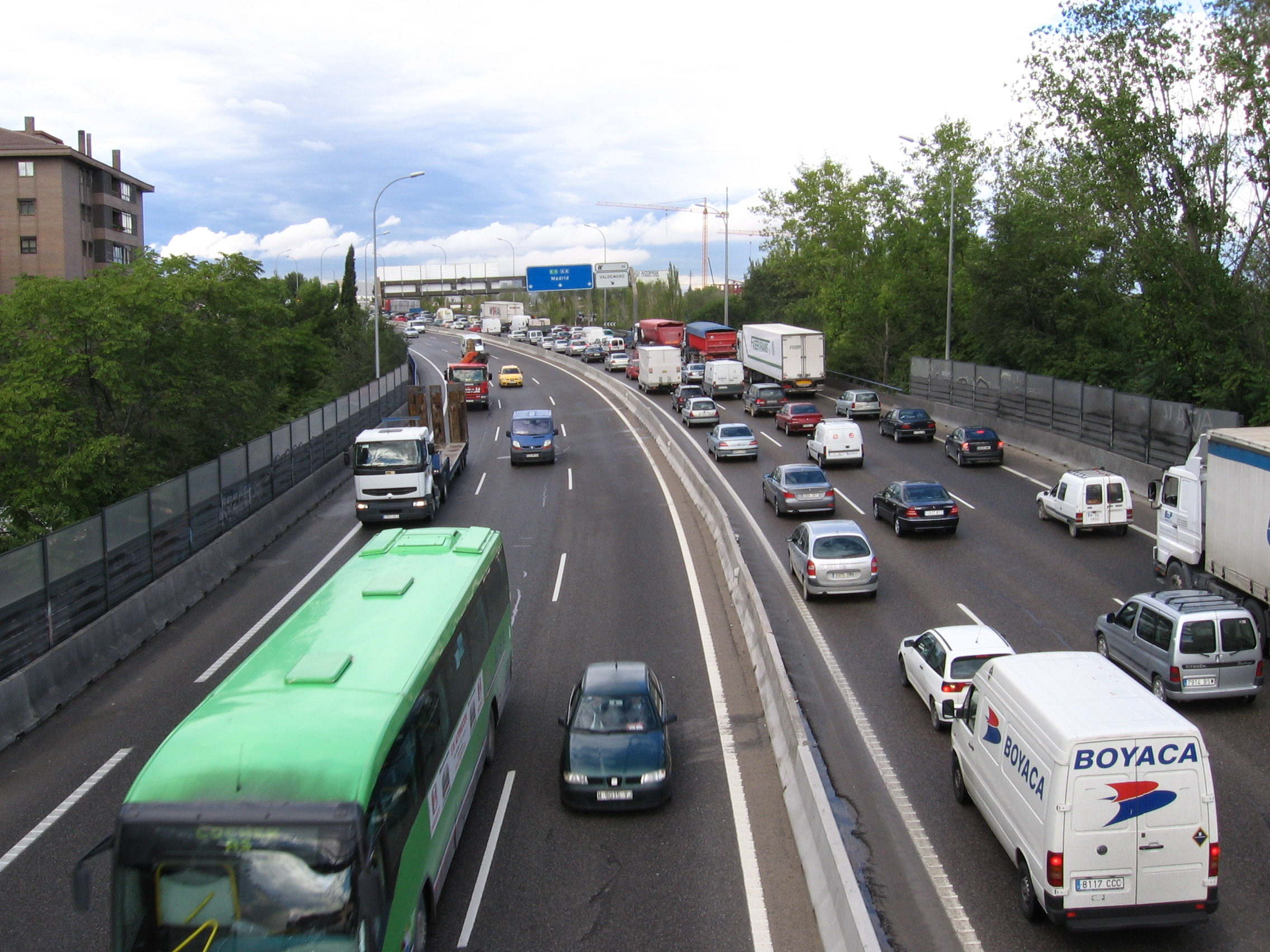 Freeway A4, Spain